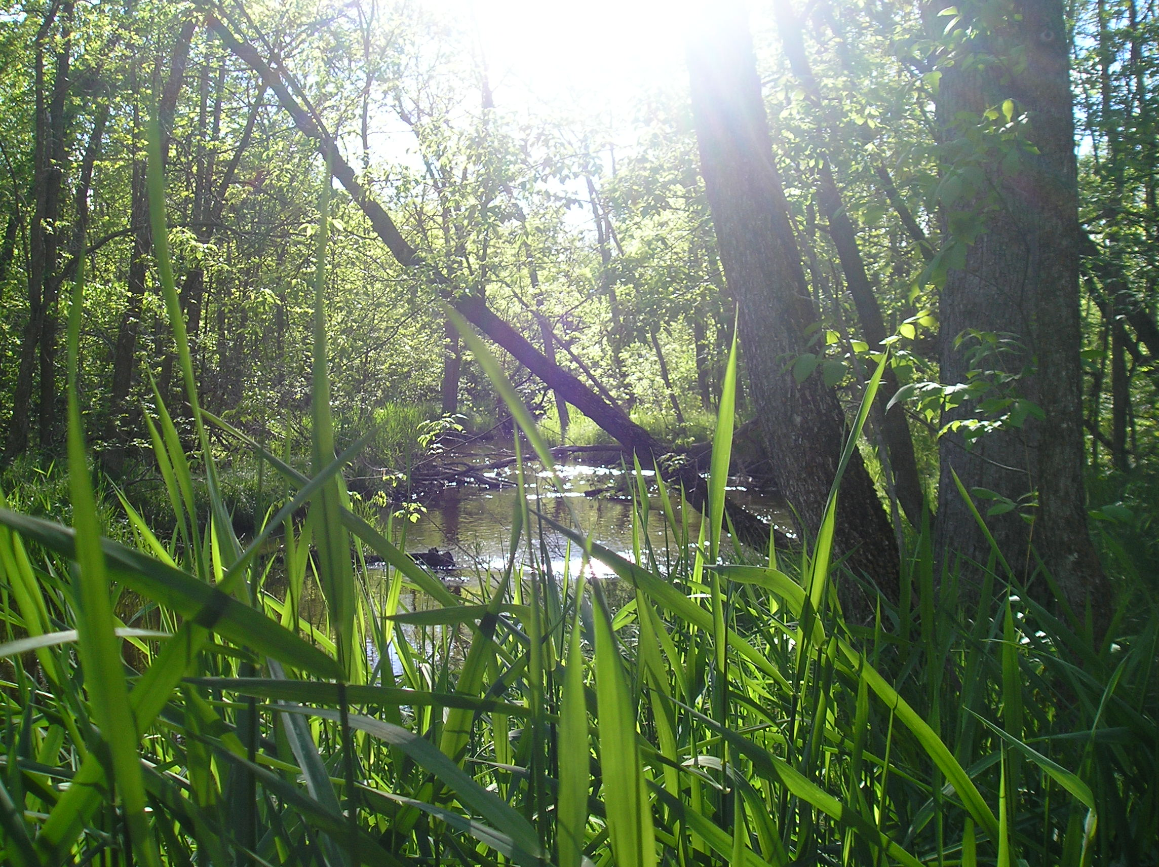 A scenic picture of La Coulée, a small creek running through part of southern manitoba, a tributary to the seine river.